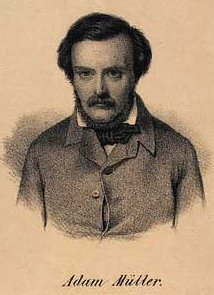 Adam August Müller (1811-1844), Danish history painter. Litografi ca 1844 by Em. Bærentzen & Co. after J. V. Gertner